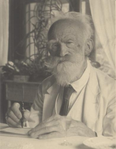 Max Jaffé (1845–1939), Austrian photographer and pioneer of photography, in his last year of life